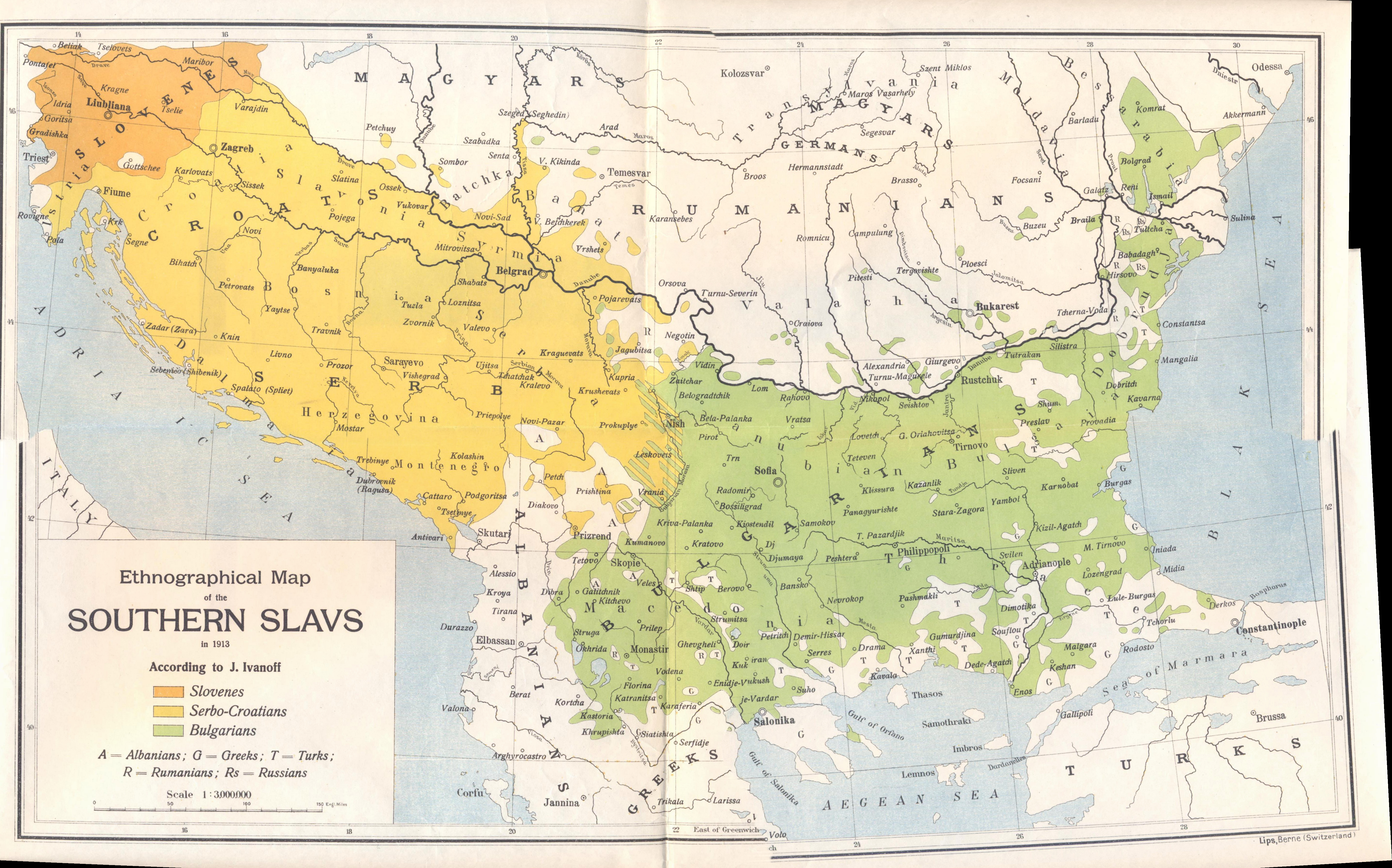 Etnographical map of the Southern Slavs in 1913.